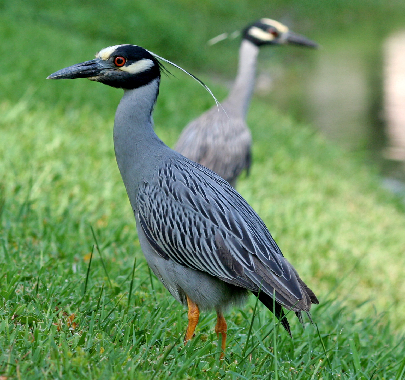 A Yellow-crowned Night Heron at a pond in Florida, with mate in the background.